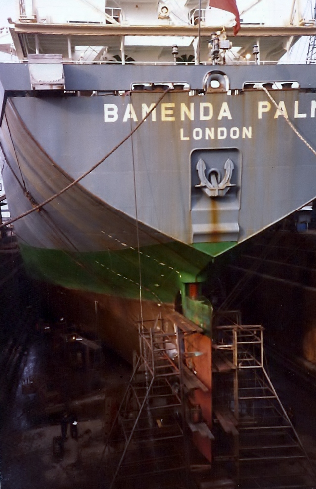 mv Bamenda Palm in Middle Docks, South Shields drydock undergoing conversion to Lloyd Texas